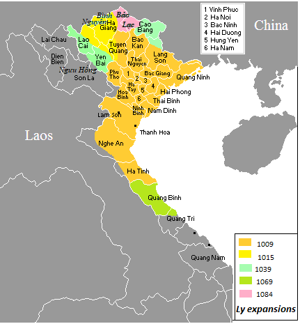 Annam in 1009–1225.